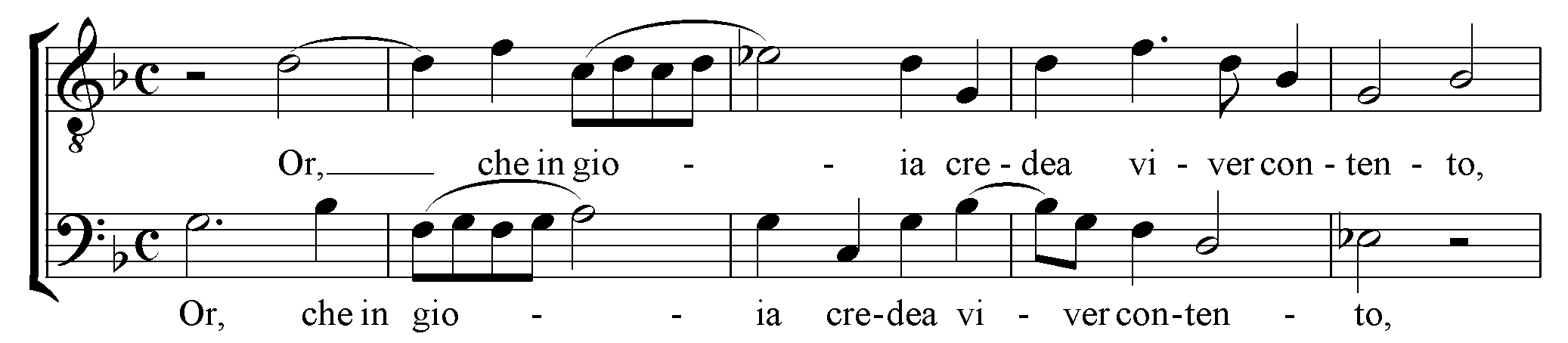 Gesualdo "Or, che in gioia credea viver contento", Madrigals, Book 4 (1596) opening measures.